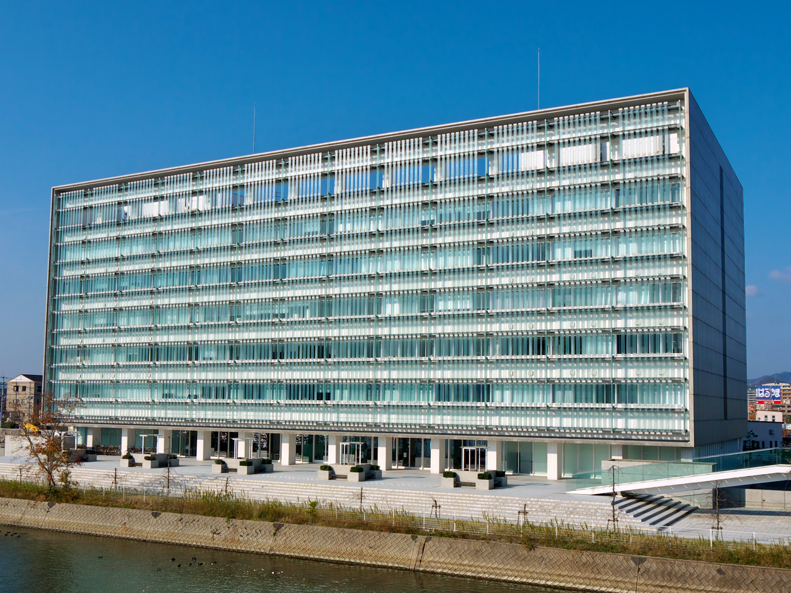 Matsue regional joint government building Chugoku-Shikoku Regional Administrative Evaluation Bureau / Shimane Administrative Evaluation Office Hiroshima Regional Immigration Bureau / Matsue Branch Matsue Probation Office Chugoku Local Financial Bureau / Matsue Local Finance Office Hiroshima Regional Taxation Bureau / Matsue Tax Office Chugoku-Shikoku Regional Bureau of Health and Welfare / Shimane Office Shimane Labour Bureau Matsue Labour Standards Inspection Office Matsue Public Employment Security Office Chugoku-Shikoku Regional Environmental Office / Yonago Nature Conservation Office / Matsue Ranger Office Japan Self Defense Force / Shimane Provincial Cooperation Office Shimane Regional Assistance Center